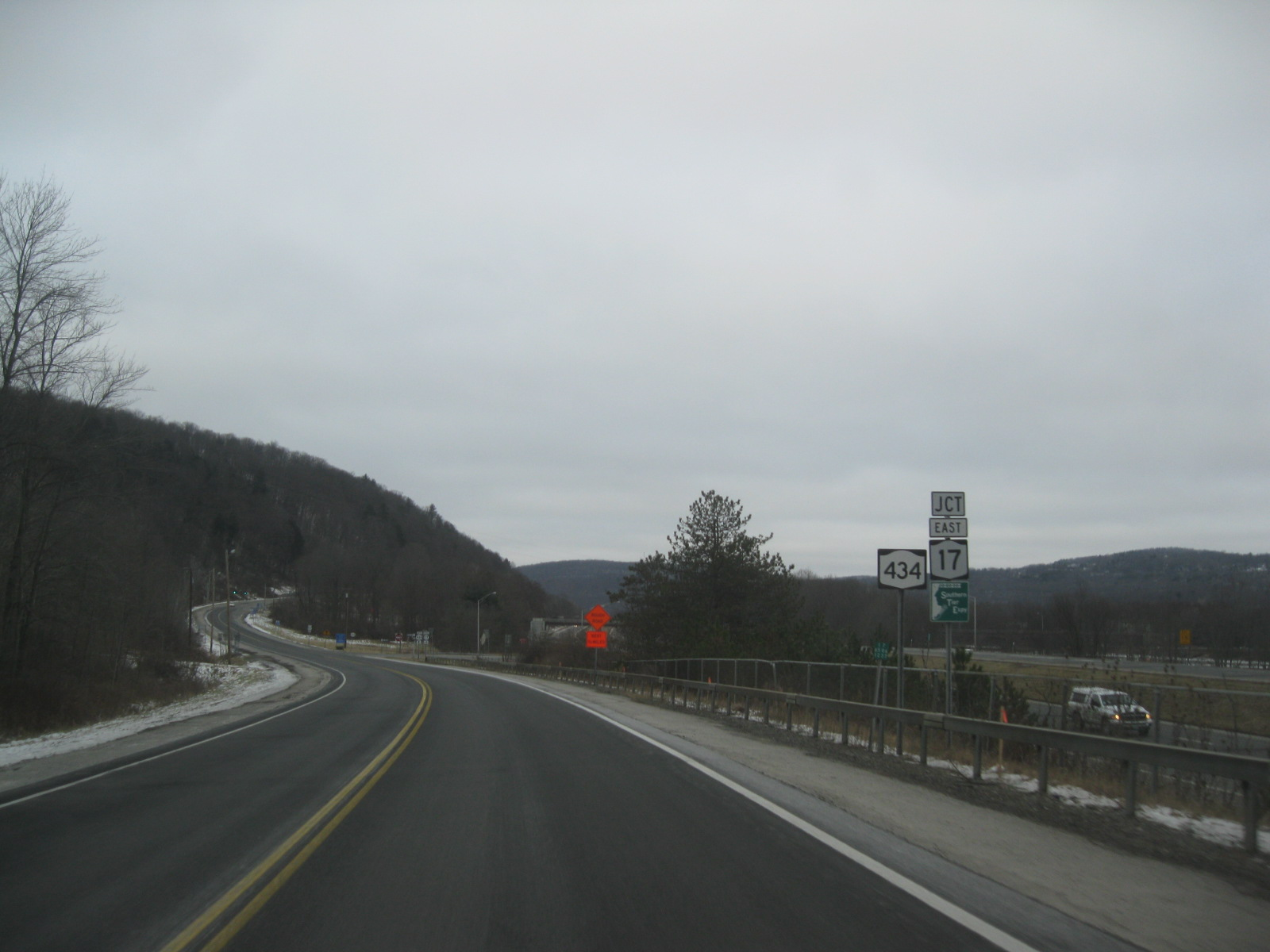 New York State Route 434 westbound at New York State Route 17 exit 65 in the town of Owego.